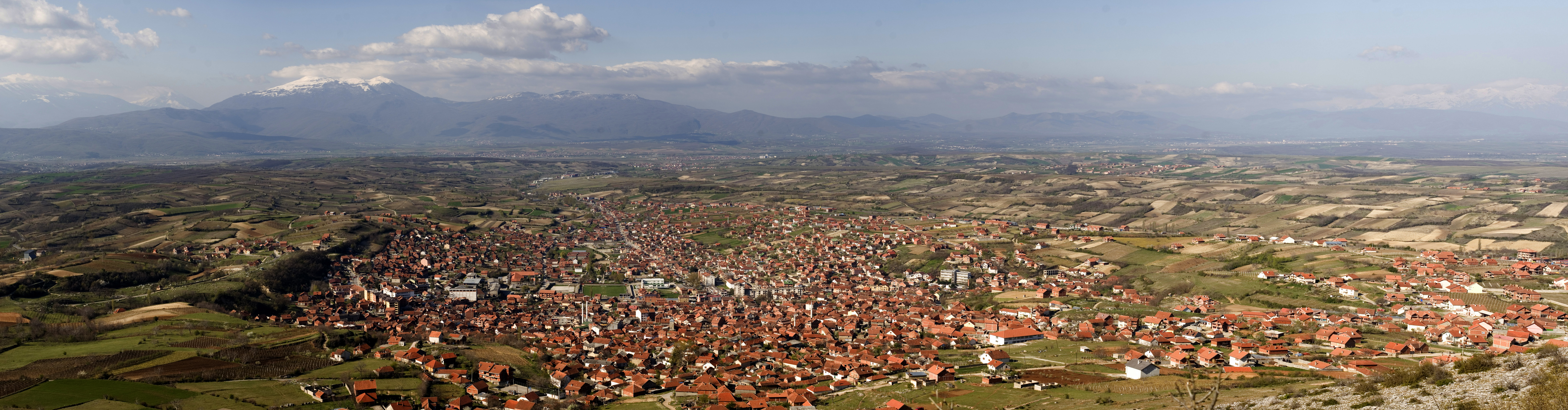 Panoramica. Town Orahovac \ Rahovec . Kosovo.